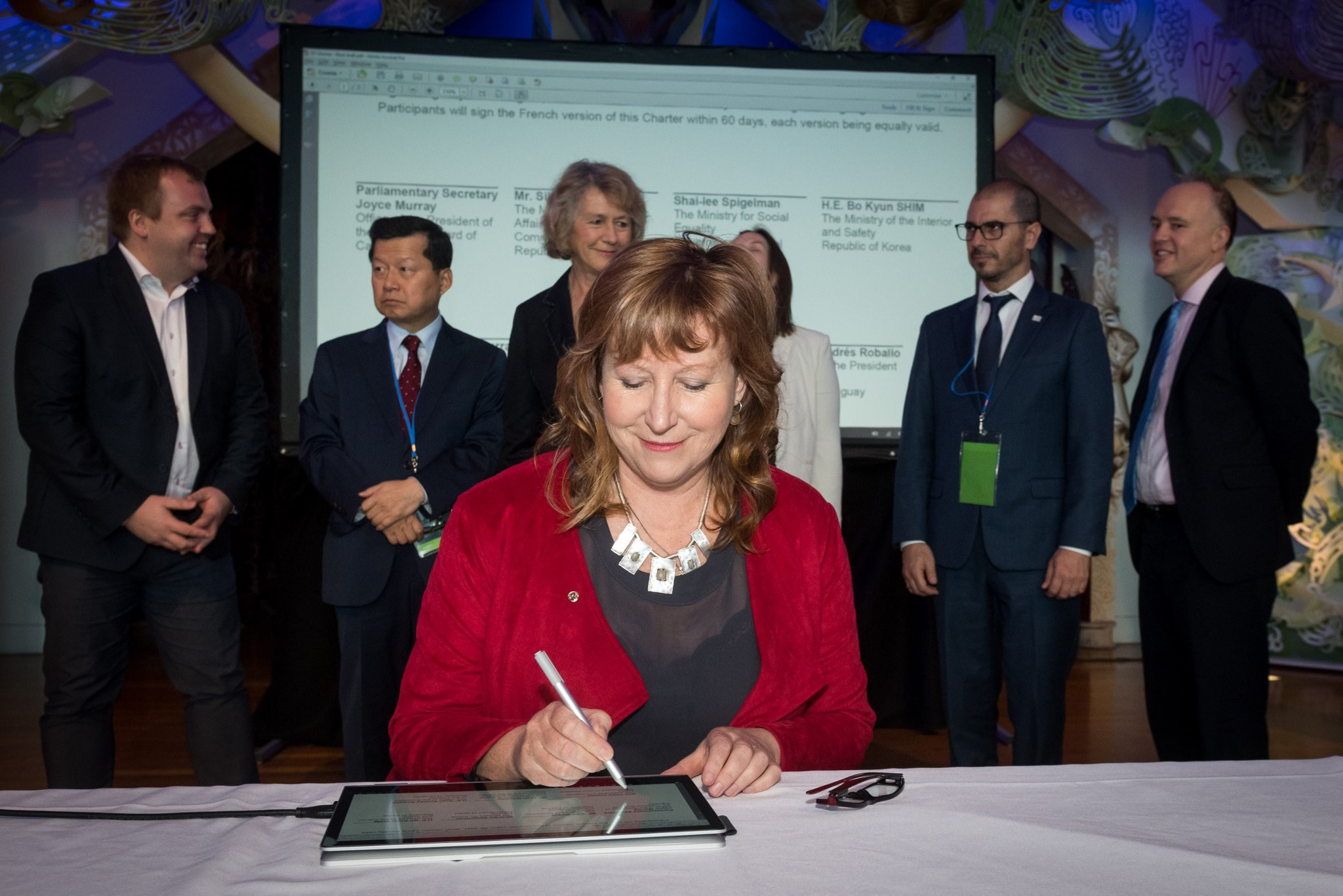 Clare Curran, then the New Zealand Minister for Government Digital Services, signing the Digital 7 Charter at the D7 Ministerial meeting in Wellington New Zealand, February 2018